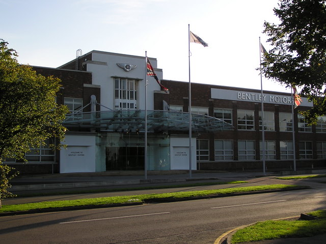 Bentley Motors, Crewe. The former HQ of Rolls Royce Motor Cars, now Bentley Motors. For more info on Bentley, see Bentley or